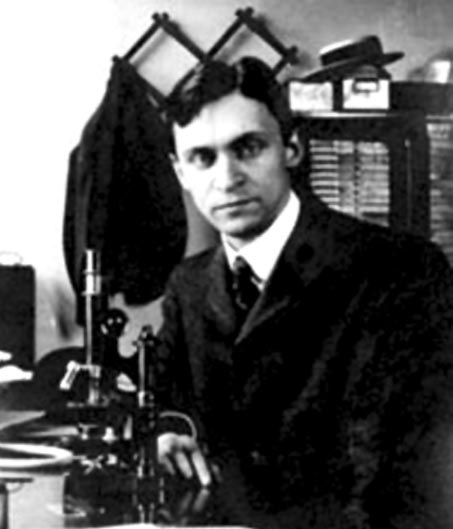 Dr. Eugene Opie in his laboratory at Johns Hopkins University School of Medicine, 1903.